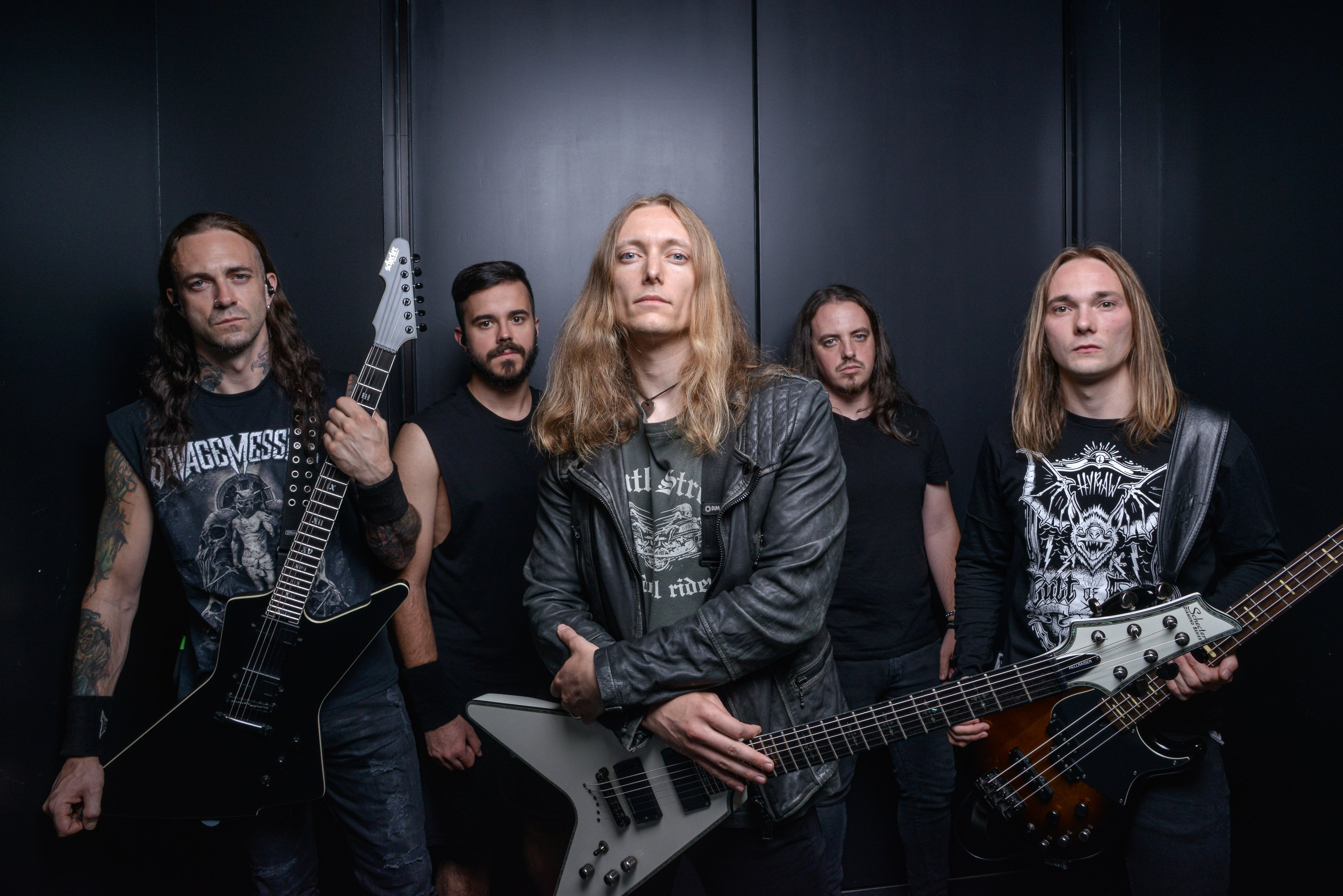 Tokyo, Japan 2019